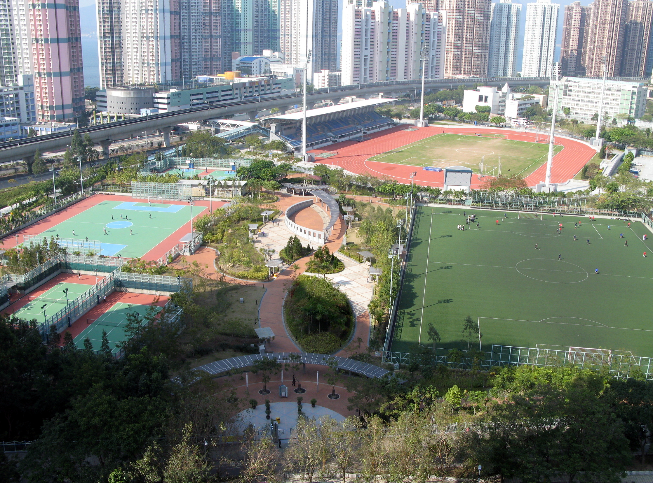 Ma On Shan Recreation Ground